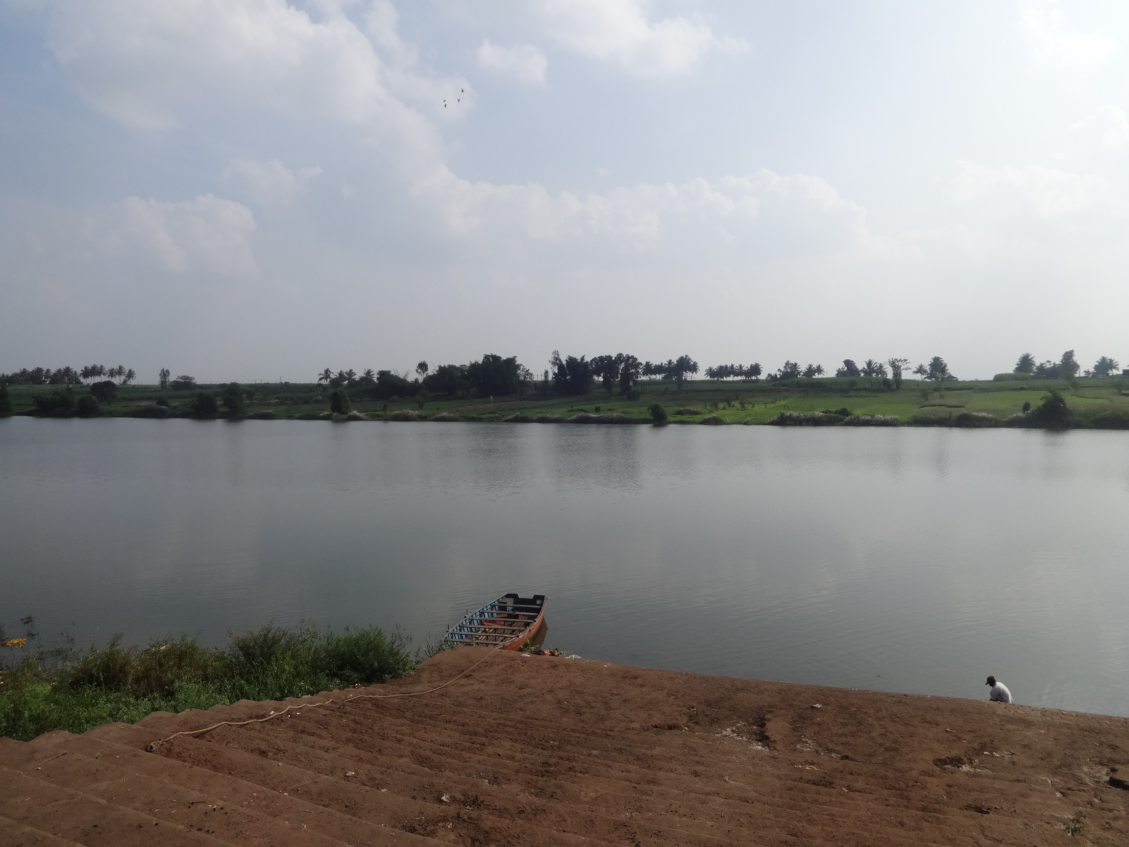 Krishna River